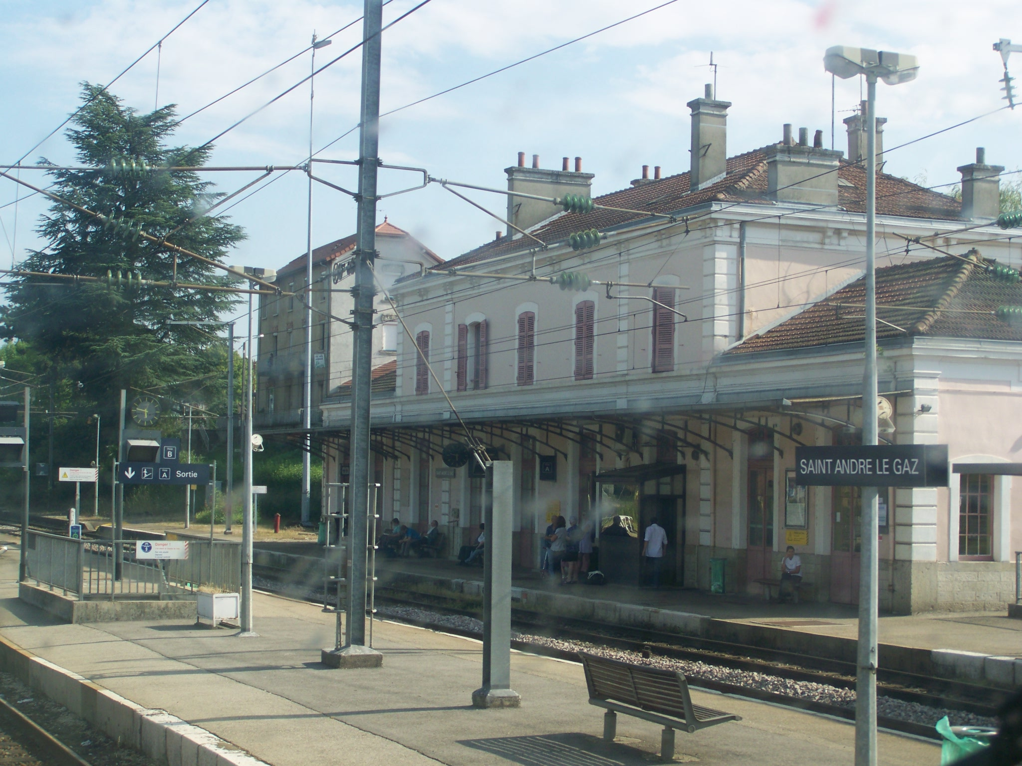 Sight on platforms, tracks and building of Saint-André-le-Gaz railway station, in Isère, France.